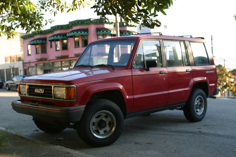 1988 Isuzu Trooper II. Formerly owned by Paul Callahan. Picture by Paul Callahan